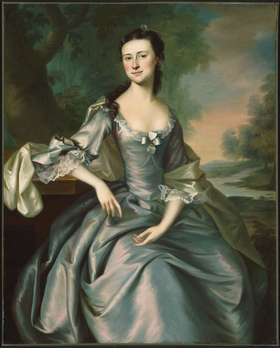 Her father was Boston merchant Charles Apthorp.